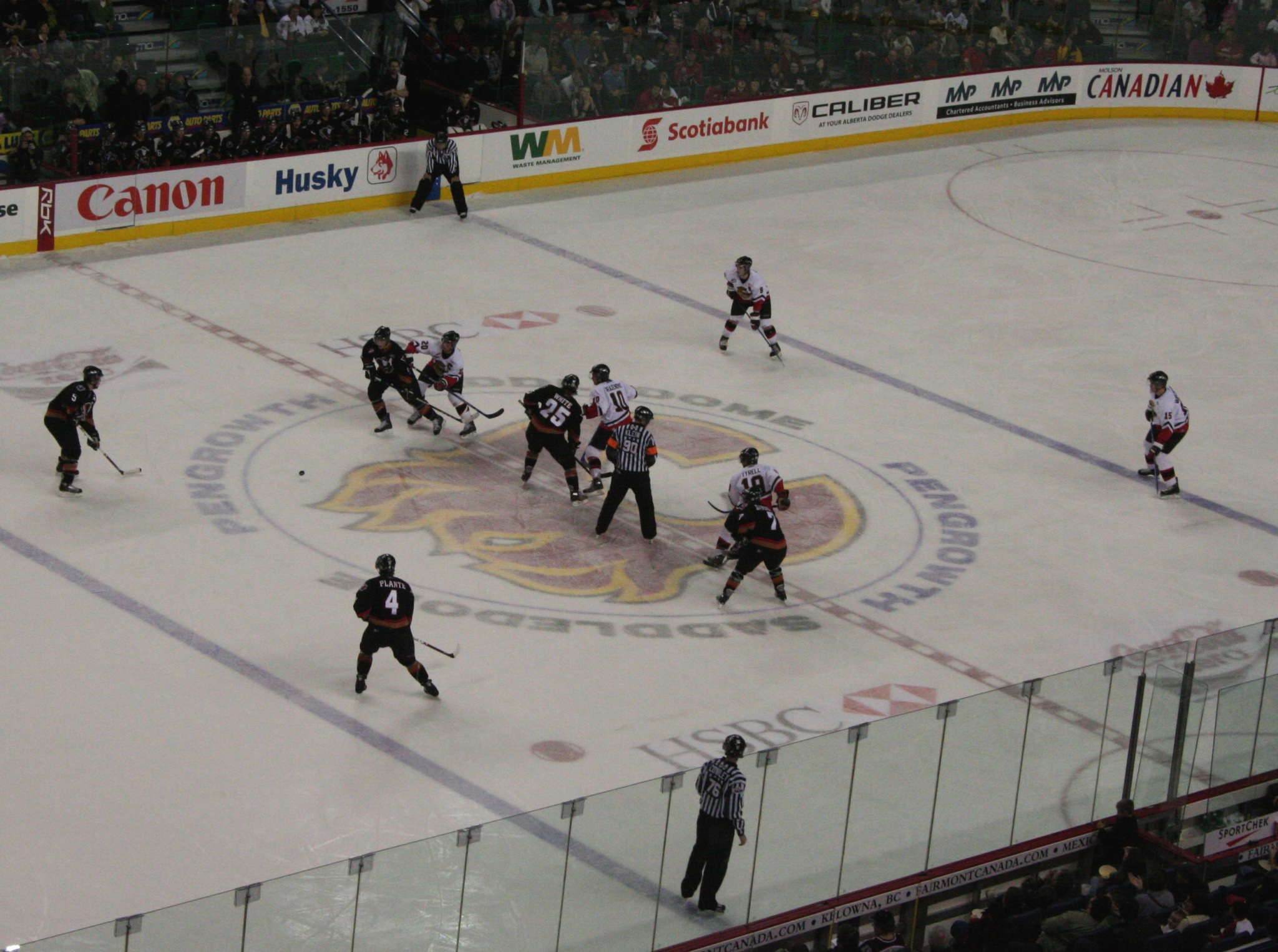 Calgary Hitmen vs. Prince George Cougars, Western Hockey League, Pengrowth Saddledome Dec-10-2006